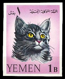 Postage stamp of Yemen, end of 1960s